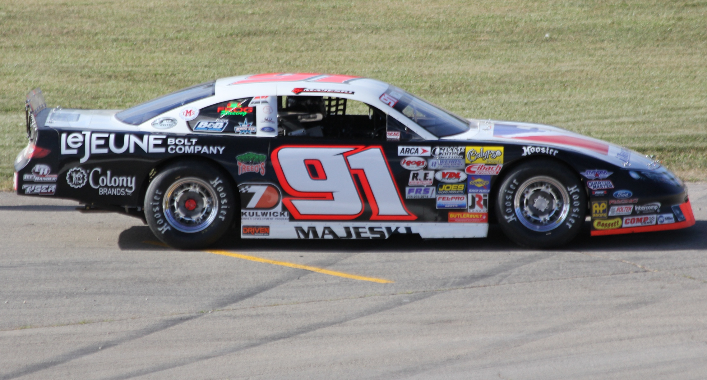 The 2015 ARCA Midwest Tour championship car of Ty Majeski at Wisconsin International Raceway.